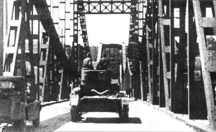 Tank T-26 at the Evhenii Bosch Bridge in Kiev